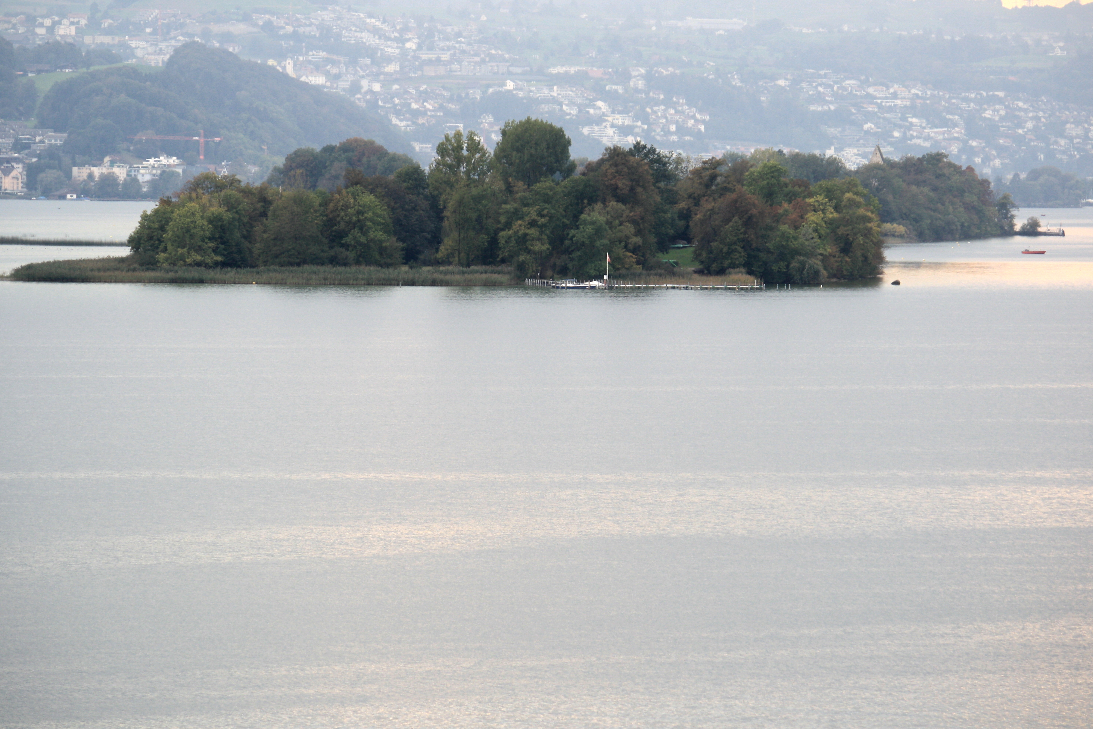 Rapperswil (SG) : Lützelau and Ufenau (in the background) as seen from Lindenhof.